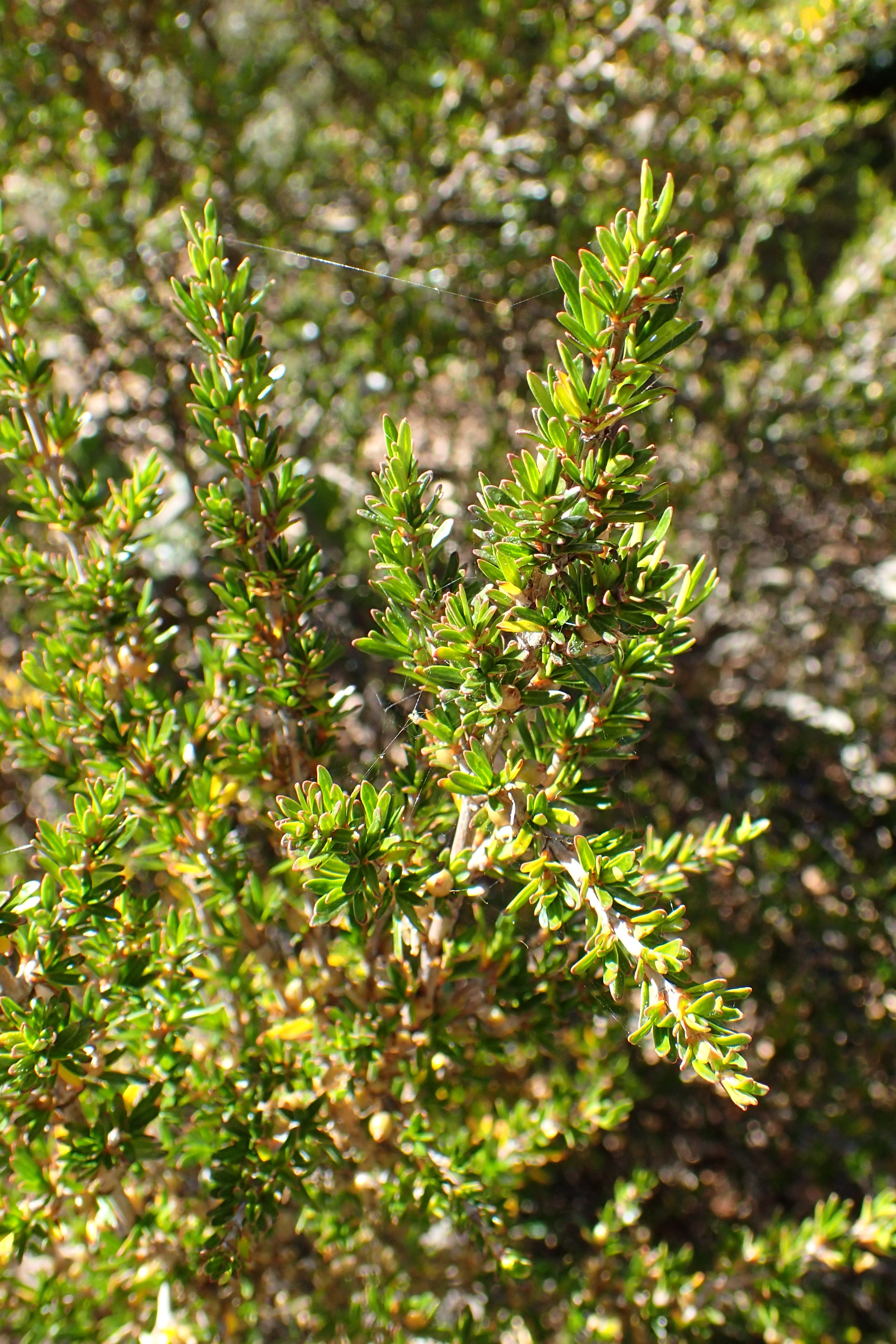 Coprosma petriei in Dunedin Botanic Garden